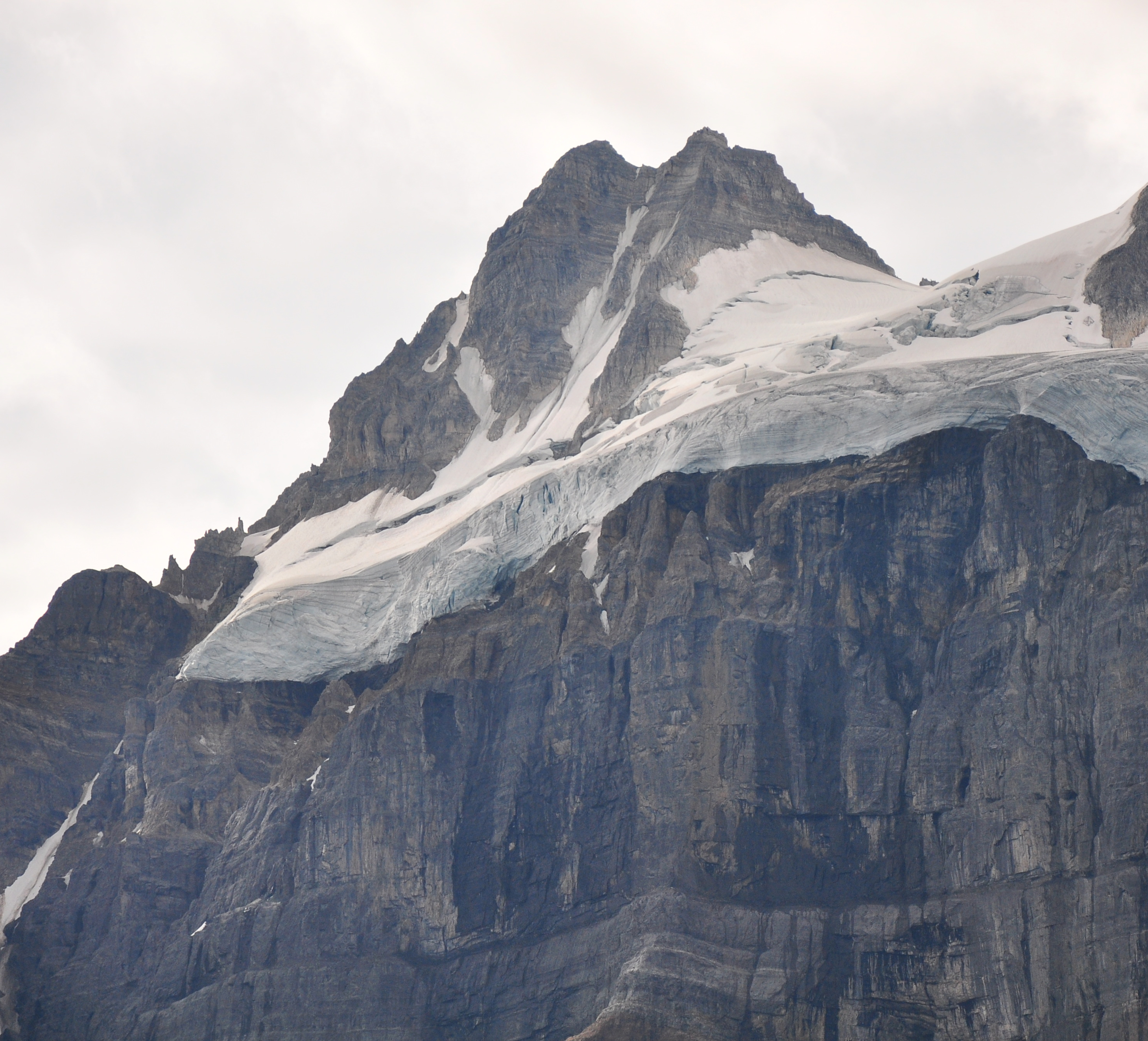 Bident Mountain seen from Consolation Lakes Trail, Banff National Park, Canada